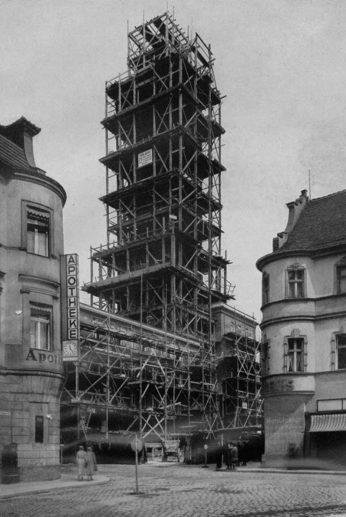 Tower of the Town Hall in Opole